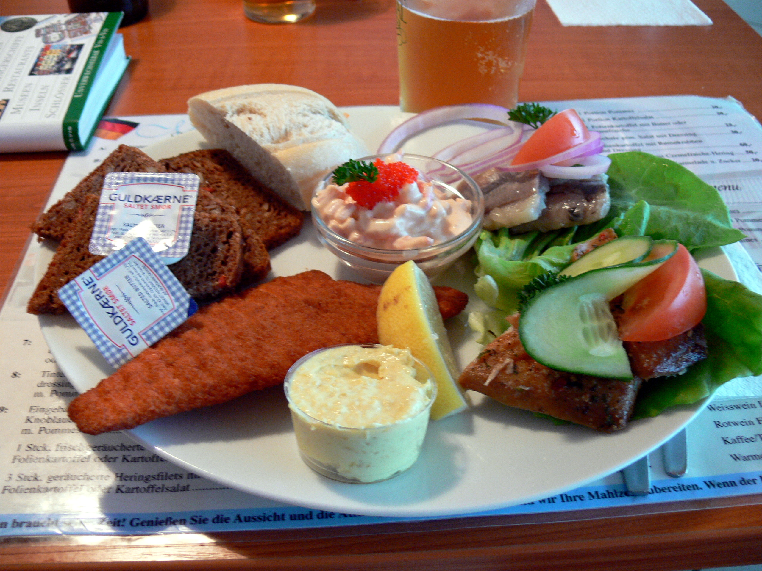 Rømø ( Denmark ). Sea food in a restaurant at the harbour of Havneby.